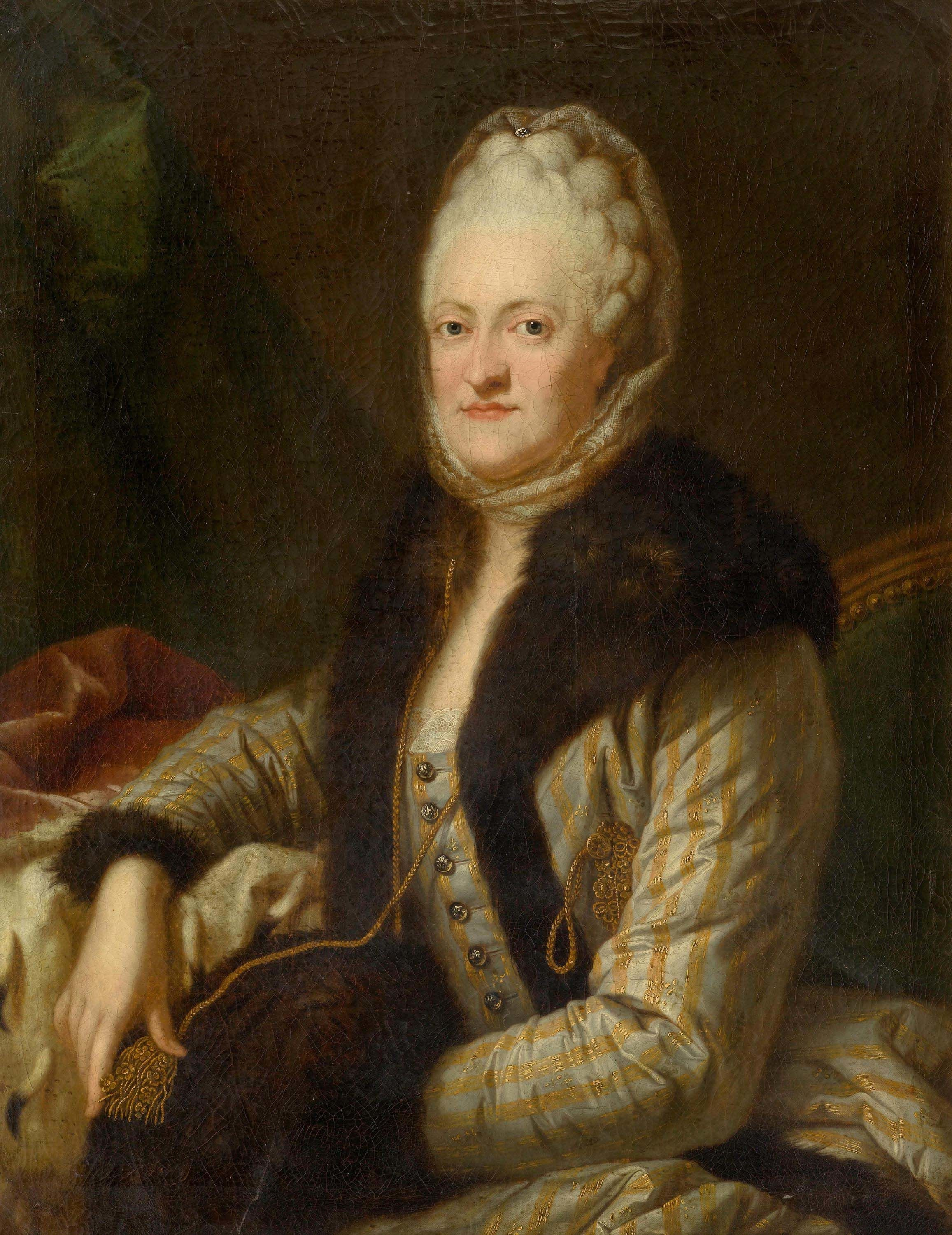 Portrait of Maria Kunigunde of Saxony (1740-1826)